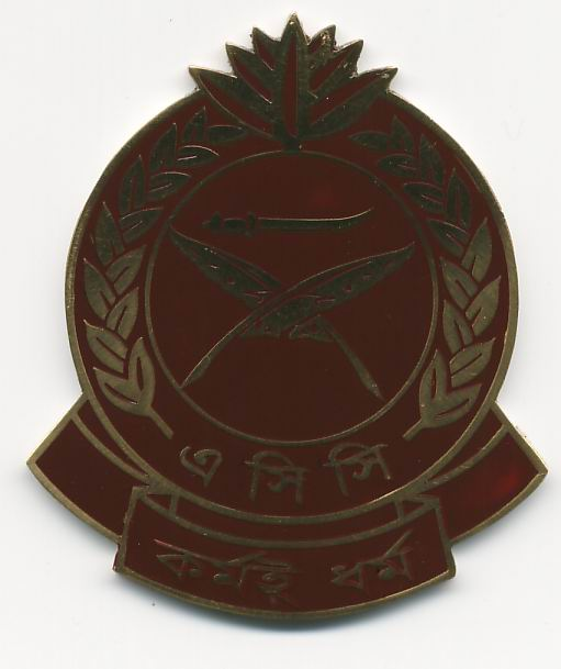 Army Corps of Clerks logo